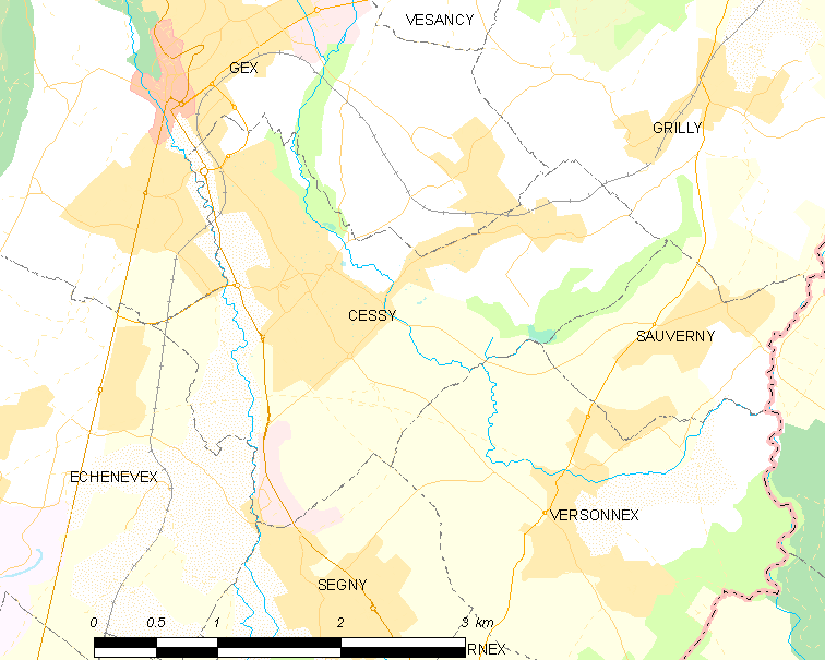 Map of French commune: Cessy Map commune FR insee code 01071.png